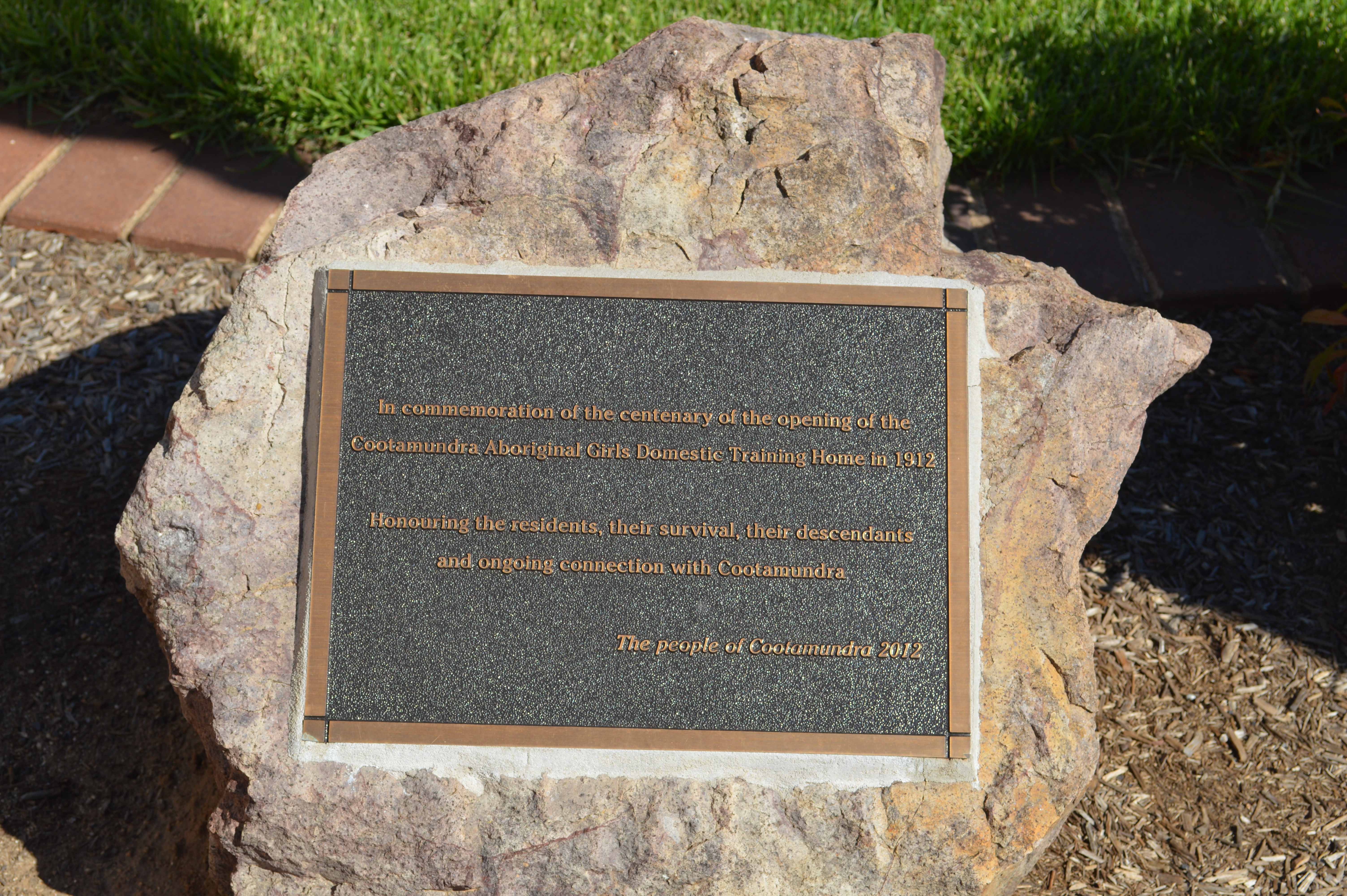 A plaque commemorating the centenary of the establishment of the Aboriginal Girls Domestic Training House in Cootamundra, New South Wales